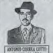 Antonio Correa Cotto (photo image only) (12B)